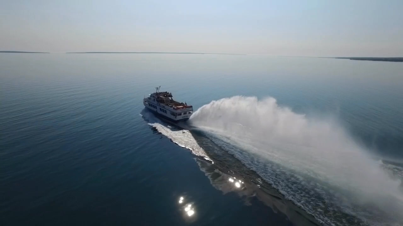 Star Line Mackinac Island Hydro-Jet Ferry's "Radisson" Hydro-Jet fast ferry leaving the Mackinaw City Dock for Mackinac Island, Michigan.